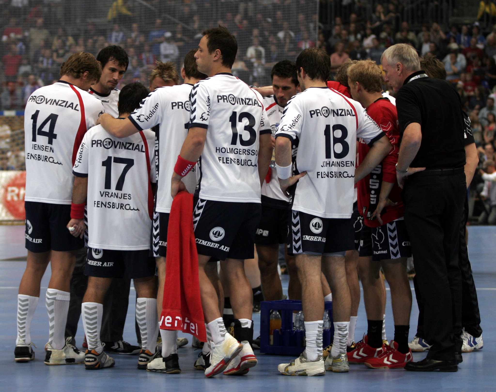 Team time-out for SG Flensburg-Handewitt, in the Kölnarena during the game VfL Gummersbach - SG Flensburg-Handewitt